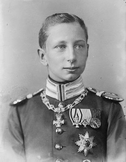 Prince Joachim of Prussia (1890 – 1920), son of Kaiser Wilhelm II